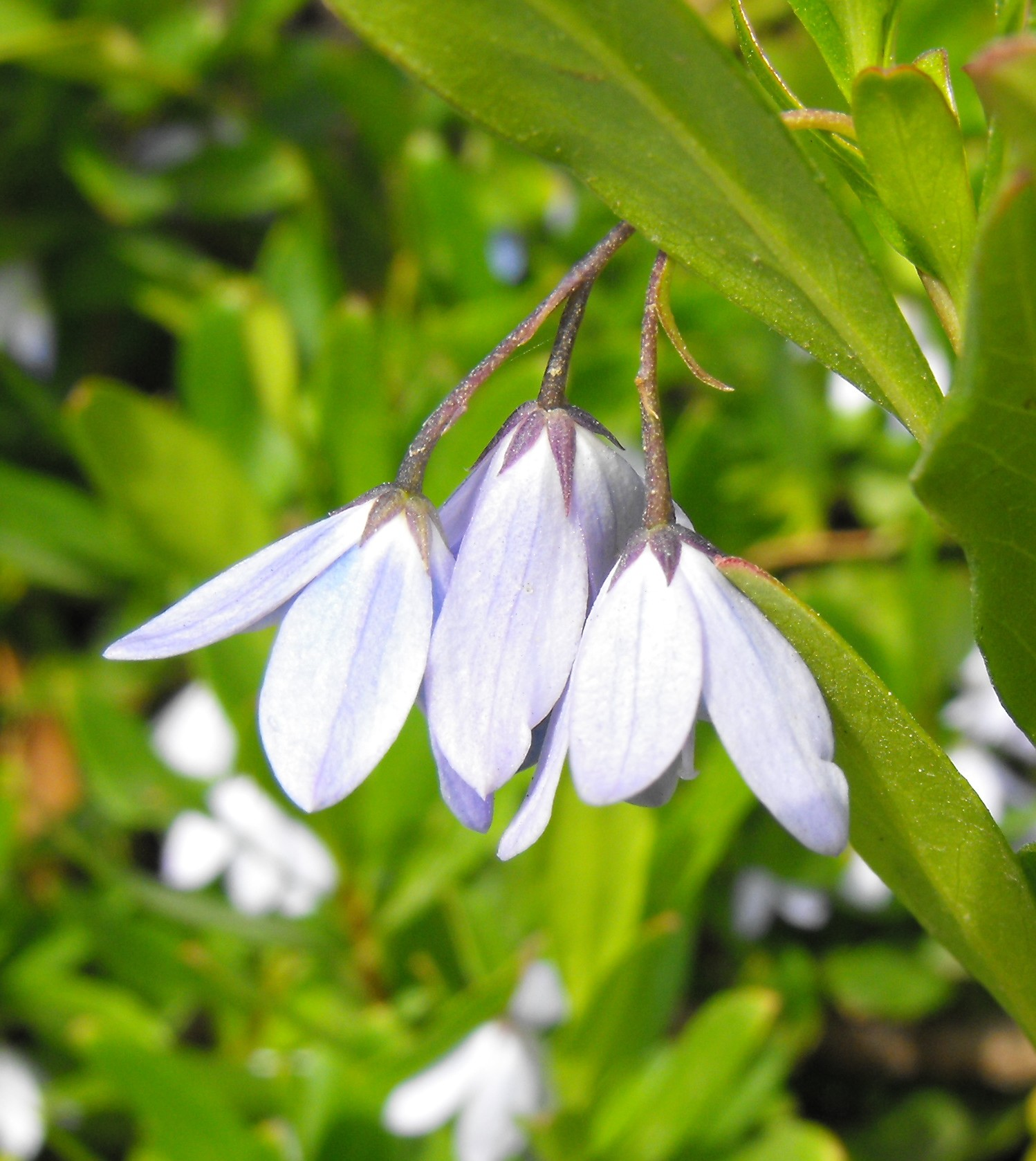 Sollya heterophylla in the Water Conservation Garden at Cuyamaca College in El Cajon, California, USA. Identified by sign.